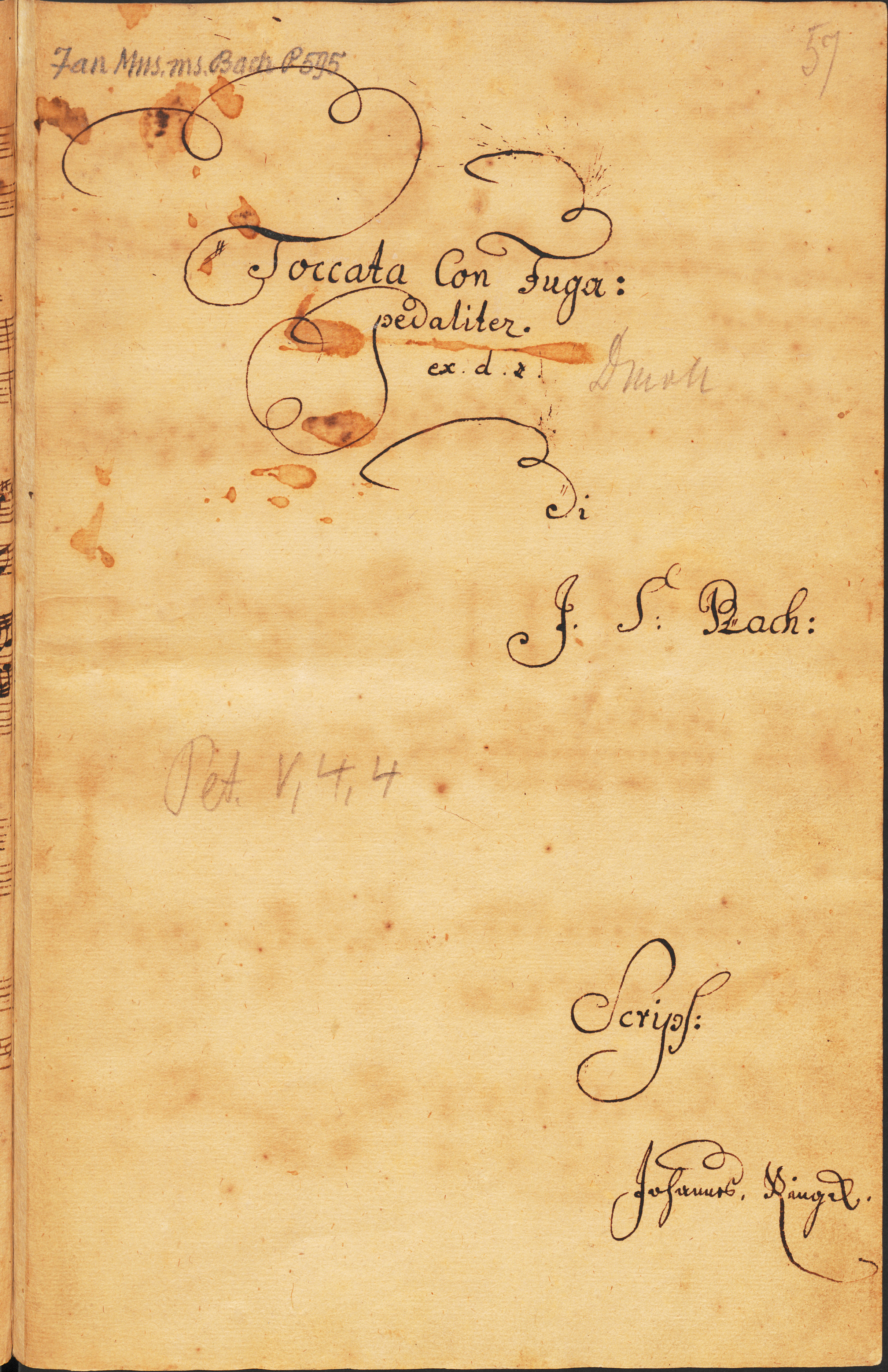 Title page of D-B Mus. ms. Bach P 595, Fascicle 8, oldest surviving manuscript of Toccata and Fugue in D minor, BWV 565